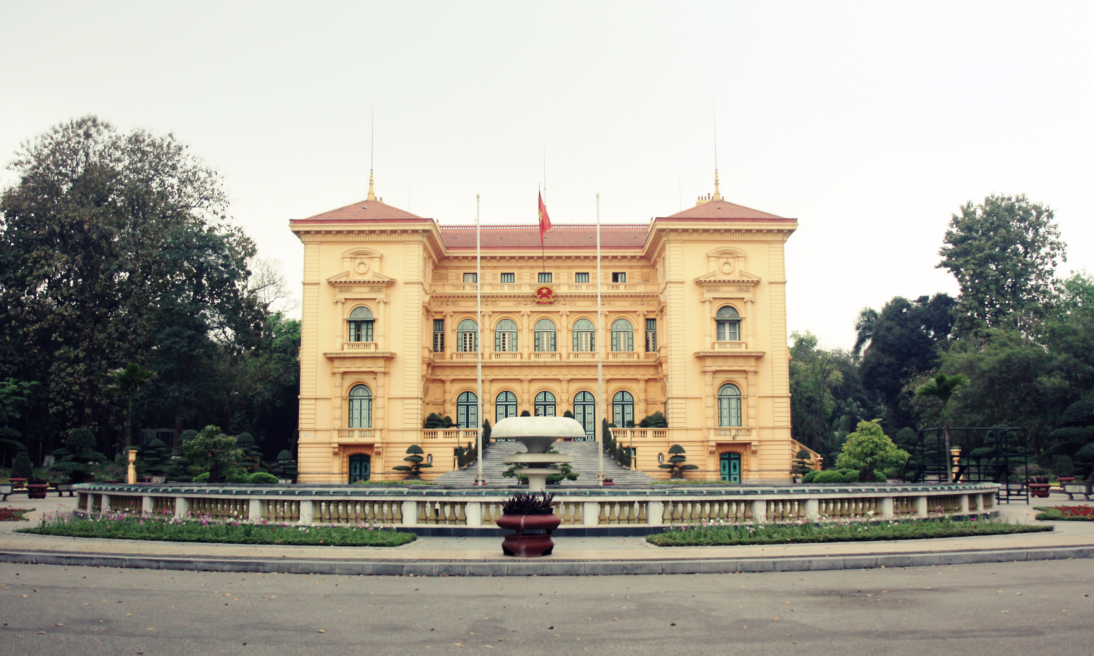 Presidential Palace, Hanoi in April 2011.